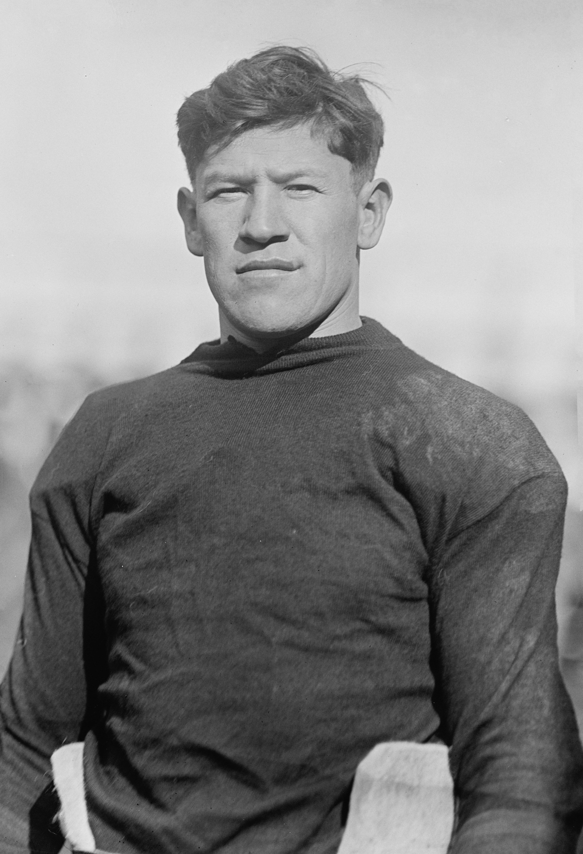 Jim Thorpe